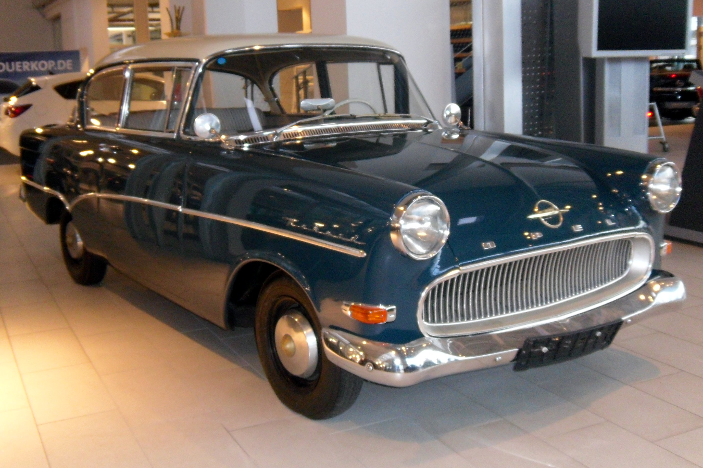 Opel Rekord P1